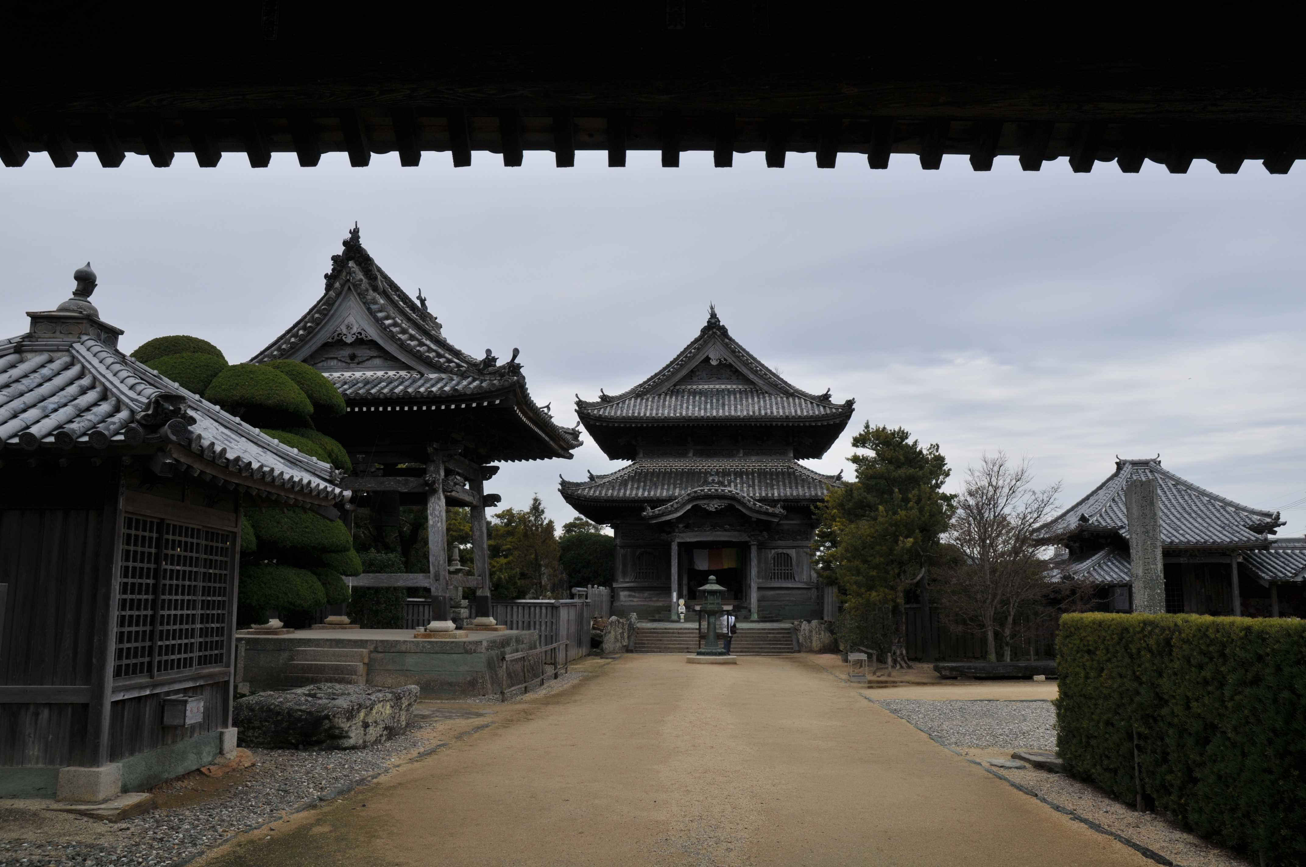 Awa Kokubun-ji